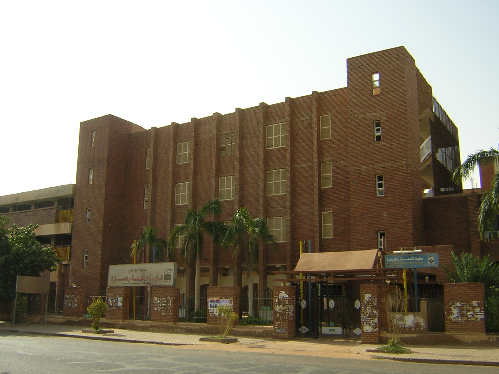 Faculty of Engineering and Architecture of the University of Khartoum, Khartoum, Sudan.